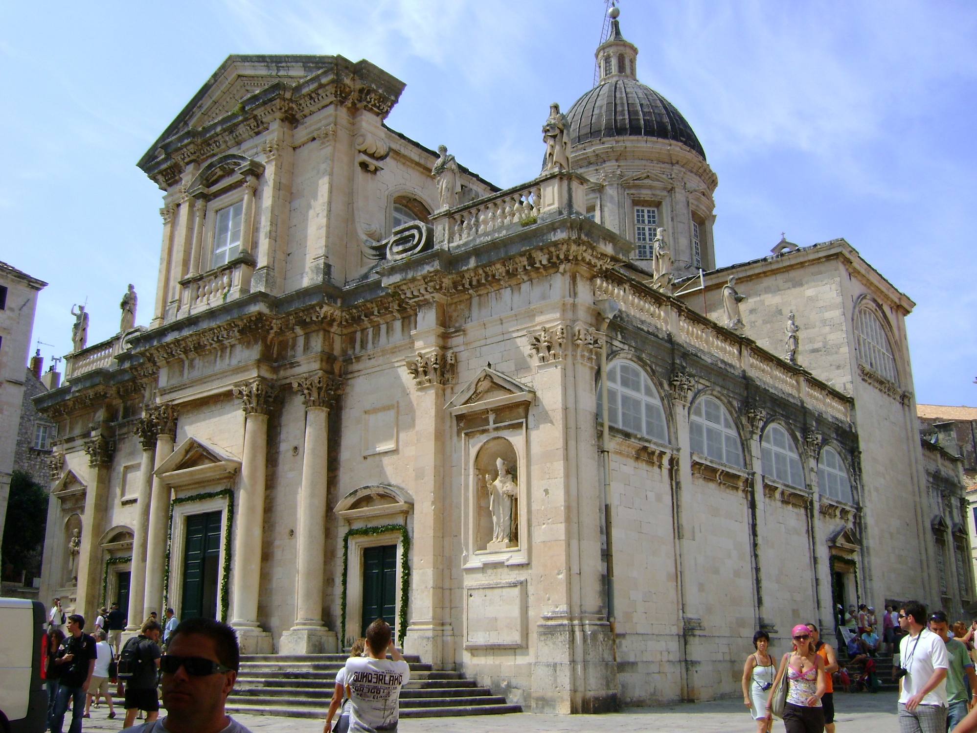 The Cathedral of Dubrovnik, Croatia